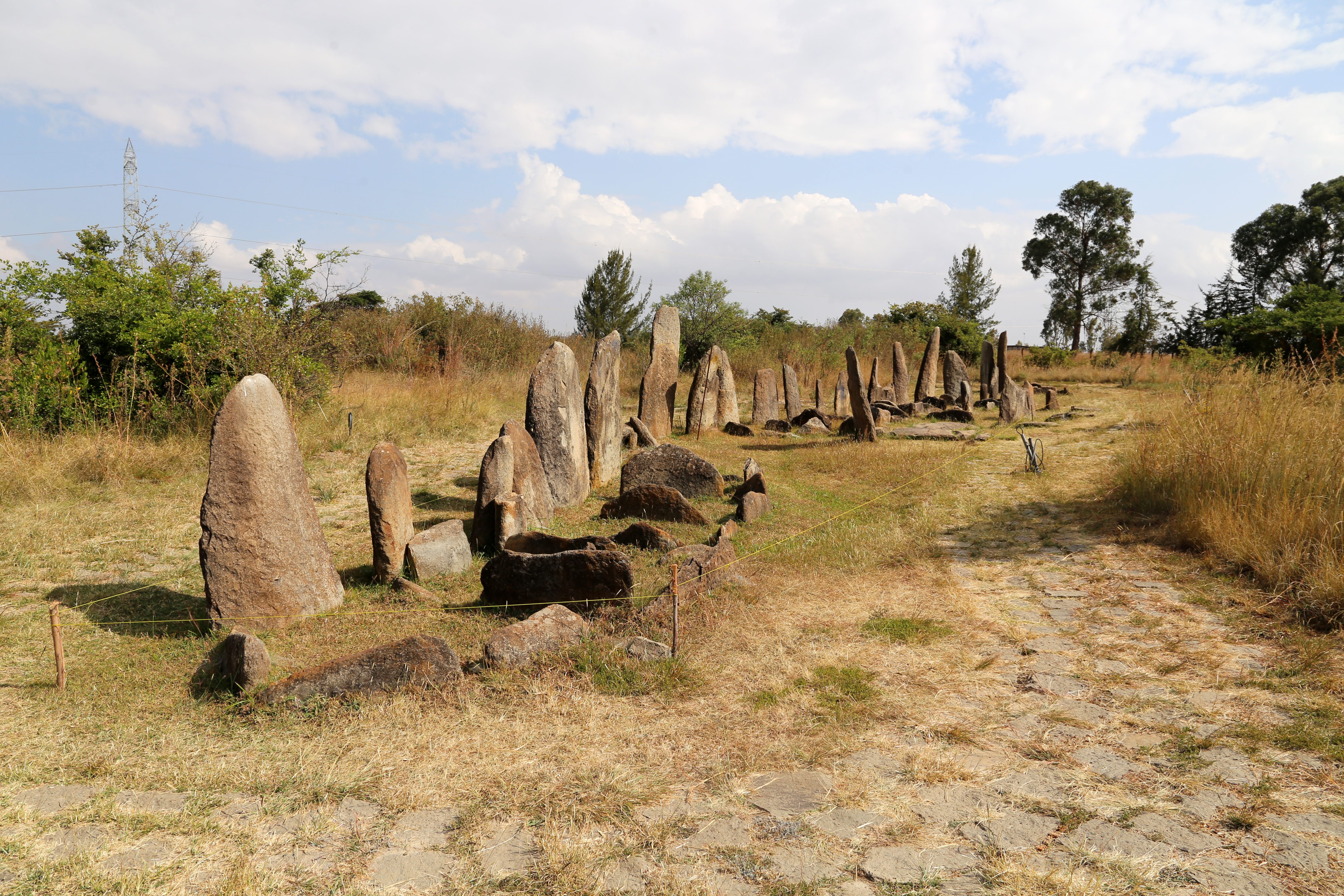 Tiya, Ethiopia